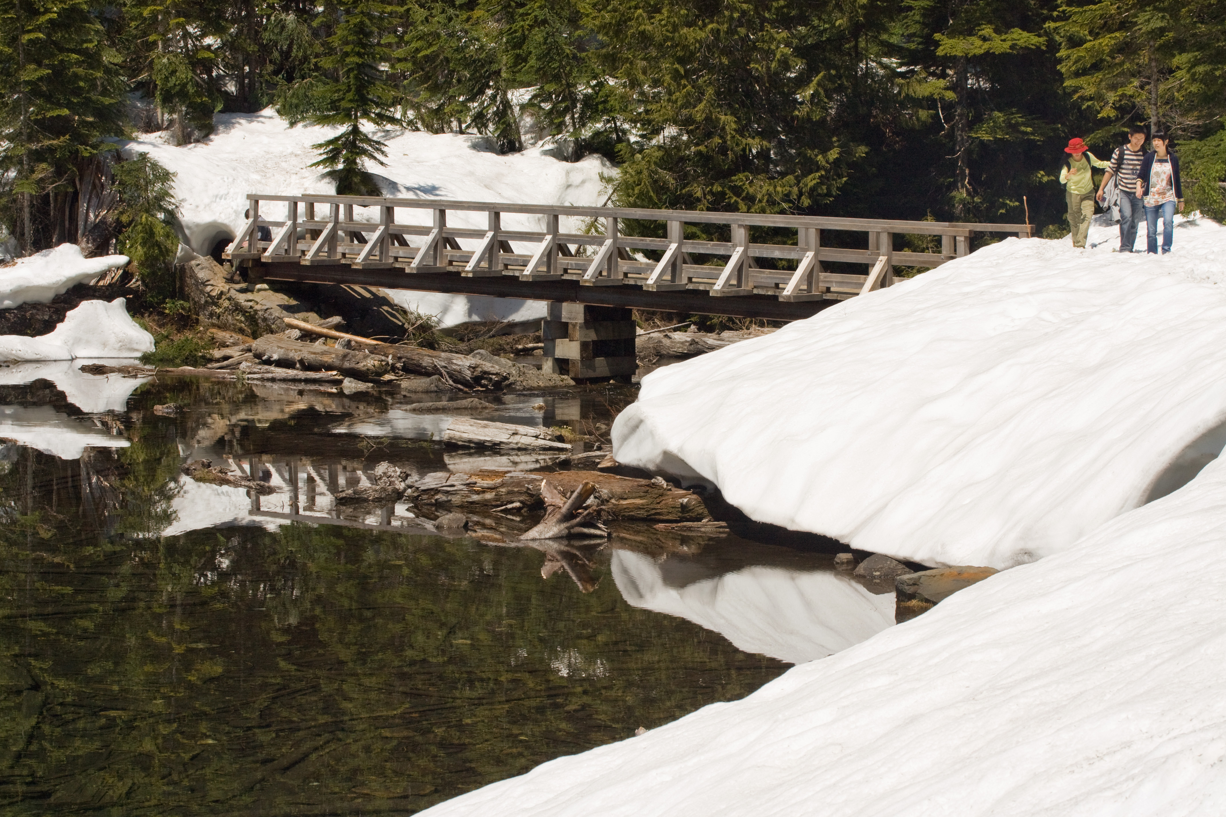 Footbridge over Lake Twenty Two outlet